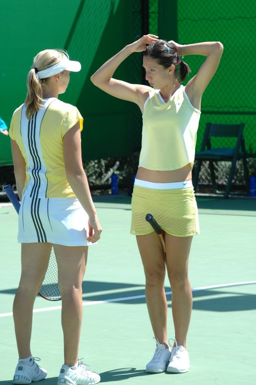 Break during doubles match at the 2005 Australian Open.